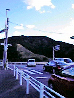 This is an intersection in Minamiise,Mie,Japan.